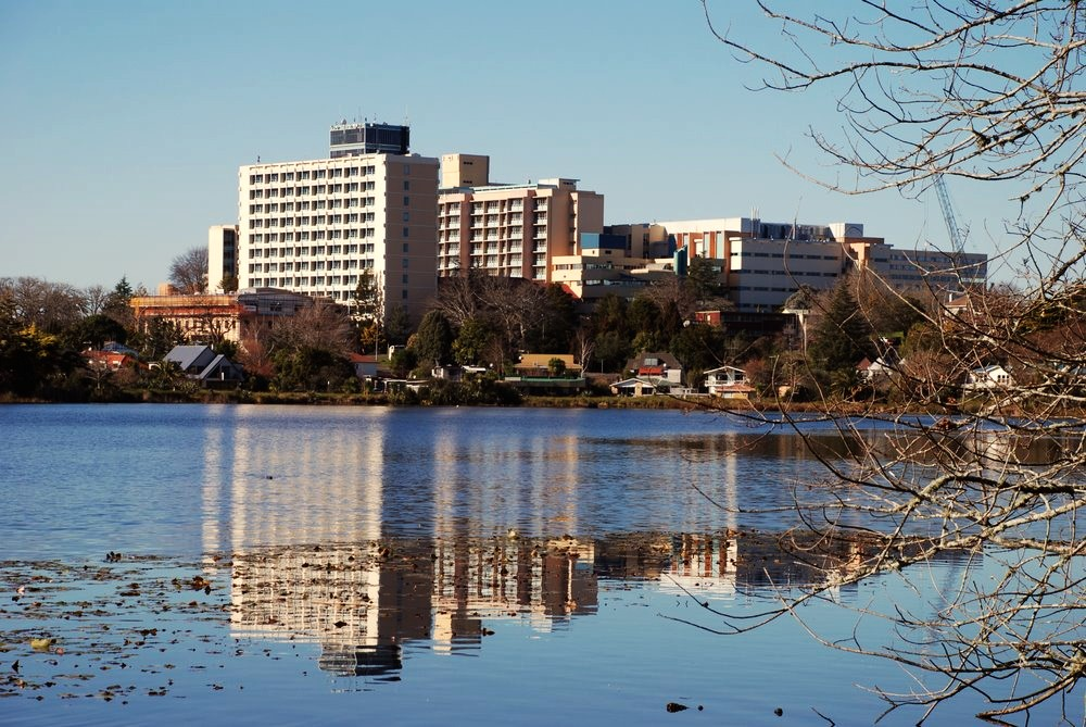 Waikato Hospital reflected on Lake Rotoroa, Hamilton.